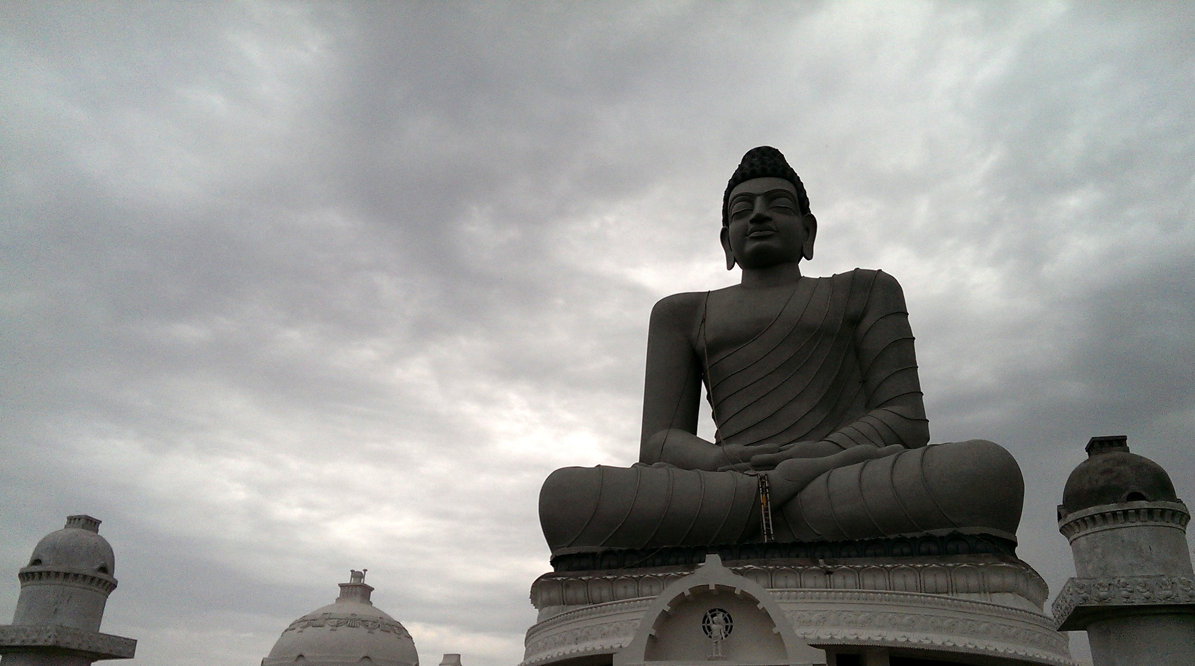 Dhyana Buddha Amaravathi